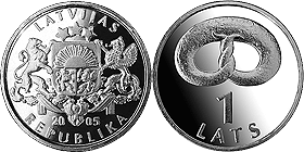 1 Lats Latvia - Pretzel Obverse: The large coat of arms of the Republic of Latvia, with the year 2005 inscribed below, is placed in the centre. The inscriptions LATVIJAS and REPUBLIKA, each arranged in a semicircle, are above and beneath the central motif, respectively. Reverse: A pretzel is featured in the upper part of the coin. The numeral 1, with the inscription LATS in a semicircle, is arranged in the lower part. Edge: Two inscriptions LATVIJAS BANKA (Bank of Latvia), separated by rhombic dots.